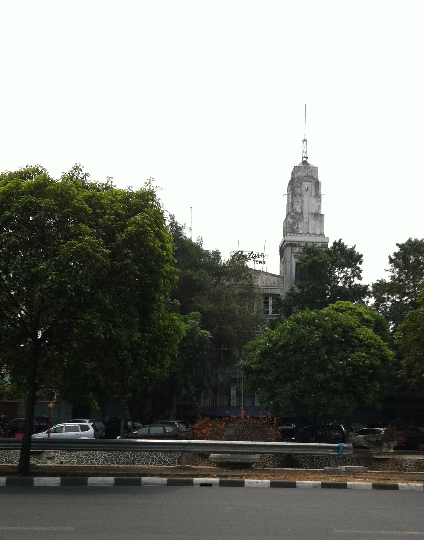 The ANTARA News, formerly ANETA news, now a deteriorating piece of history. (Jakarta, Indonesia)